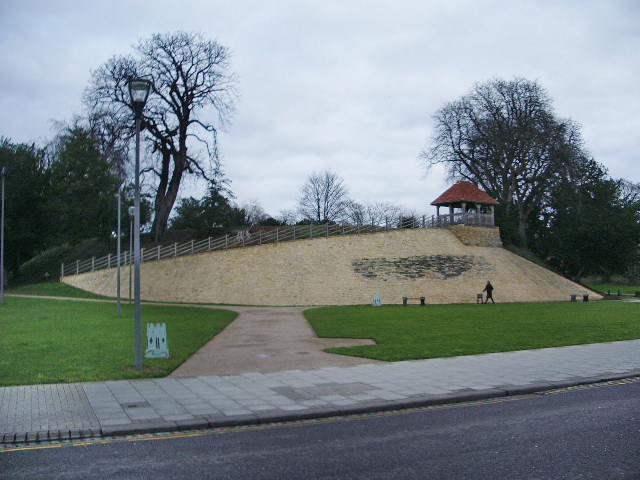 Castle Hill, Bedford This is all what remains of the motte and bailey fortress of Bedford Castle.